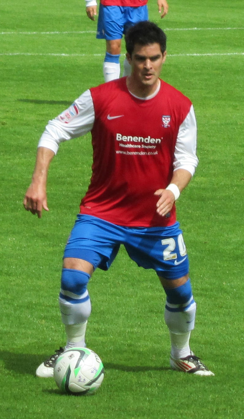 Jon Challinor playing for York City against Oldham Athletic at Bootham Crescent, York on 21 July 2012